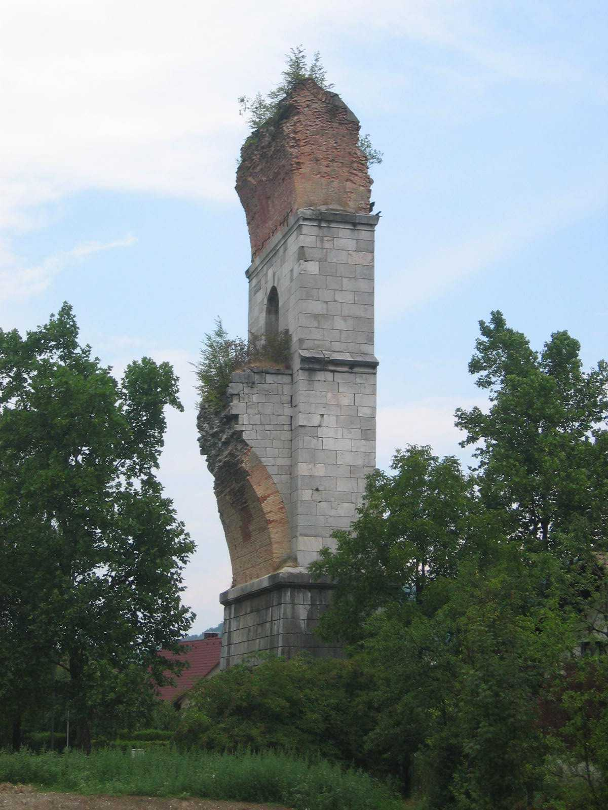 Borovnica, Slovenia: Column of ex-railway bridge (destroyed in II.WW) photo:Ziga 18:24, 29 July 2006 (UTC)